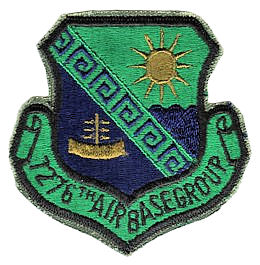 Patch of 7276th Air Base Group Crete